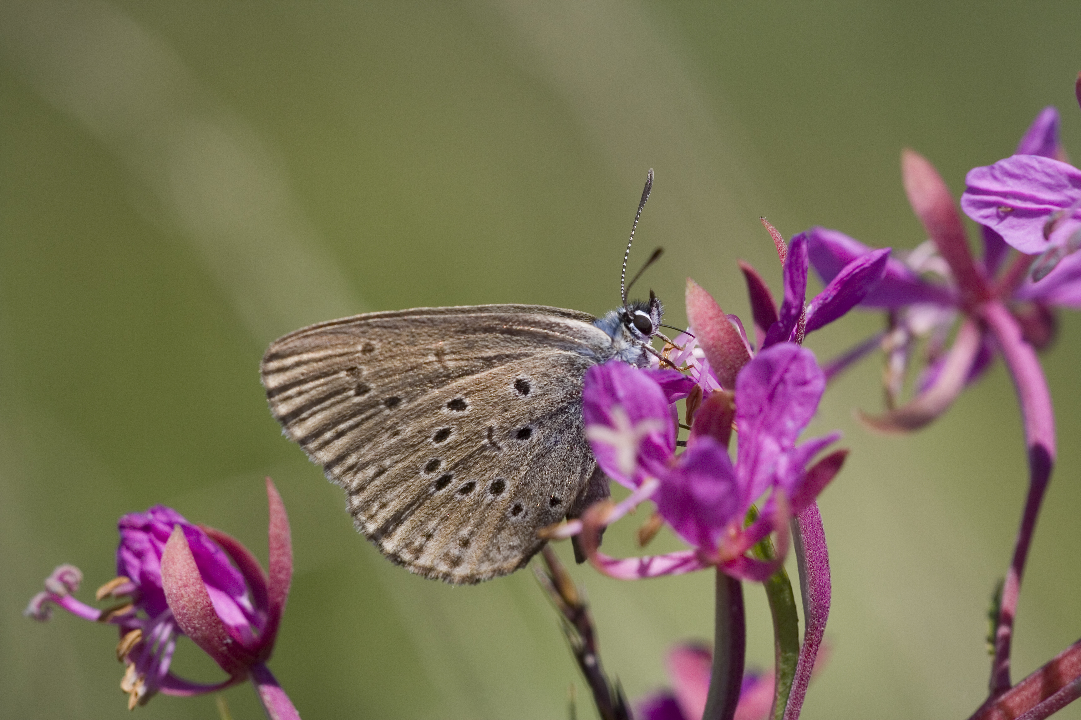 Glaucopsyche alcon